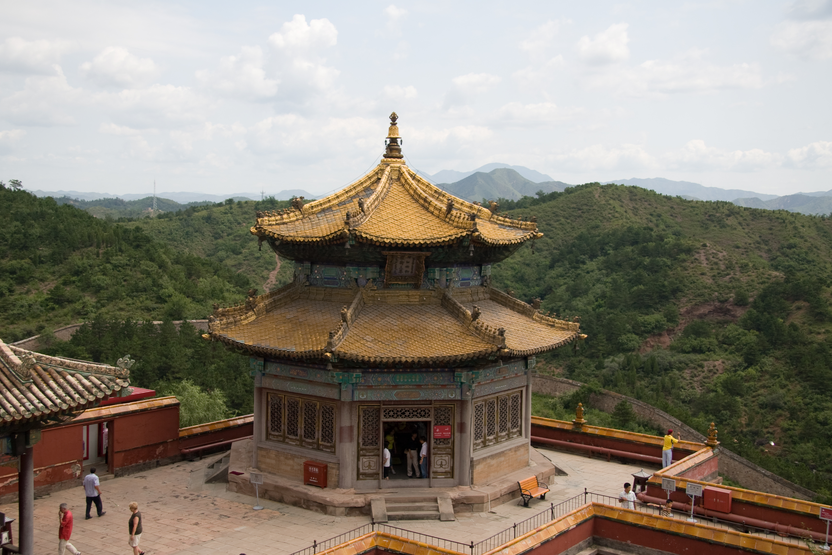 Chengde, China